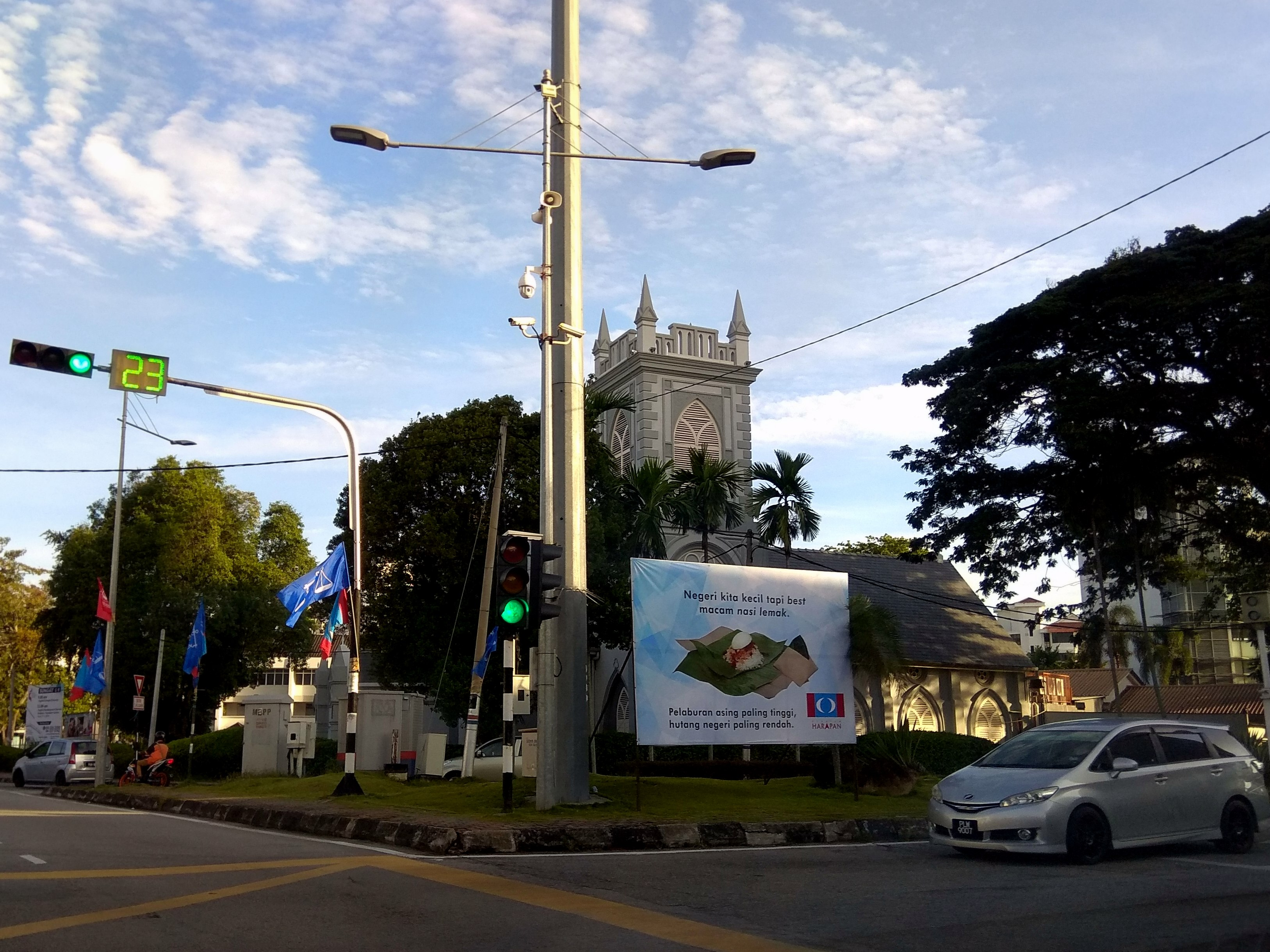 A Pakatan Harapan banner depicting nasi lemak, an ubiquitous local dish, in the city of George Town in Penang.